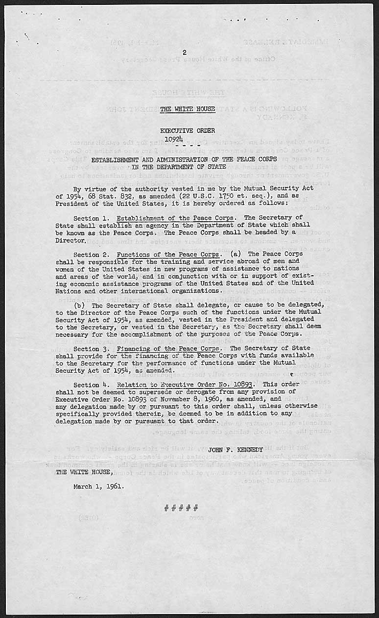 Executive Order 10924, Establishment and Administration of the Peace Corps in the Department of State March 1, 1961, 03/01/1961.